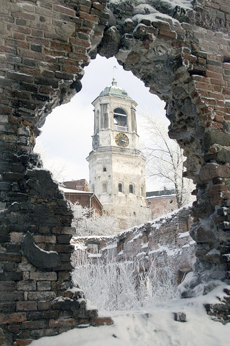 Clock tower of the old Vyborg cathedral in Vyborg, Leningrad Oblast, Russia. The church itself was destroyed during Winter War on February 18th, 1940.